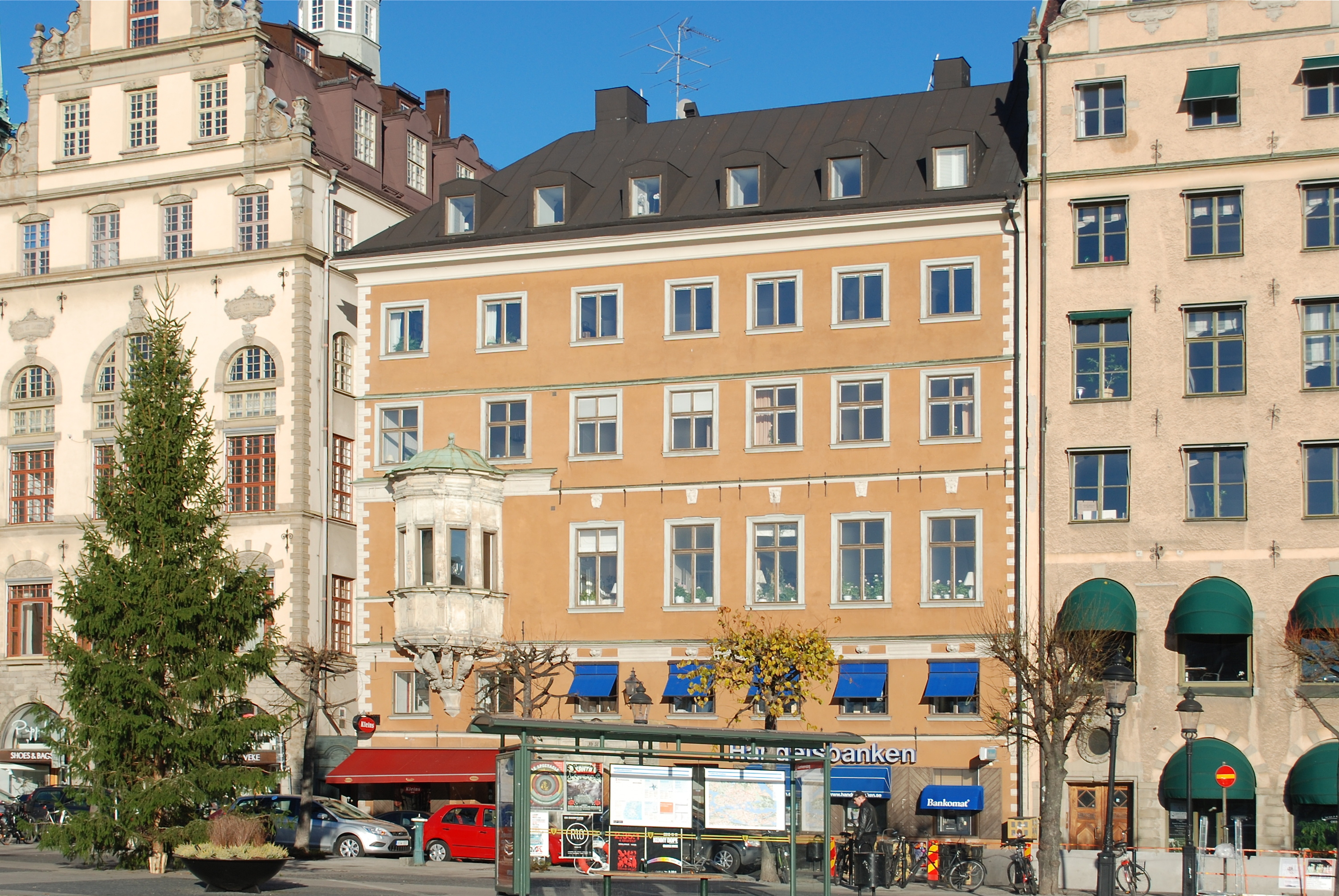 Kornhamnstorg 51.